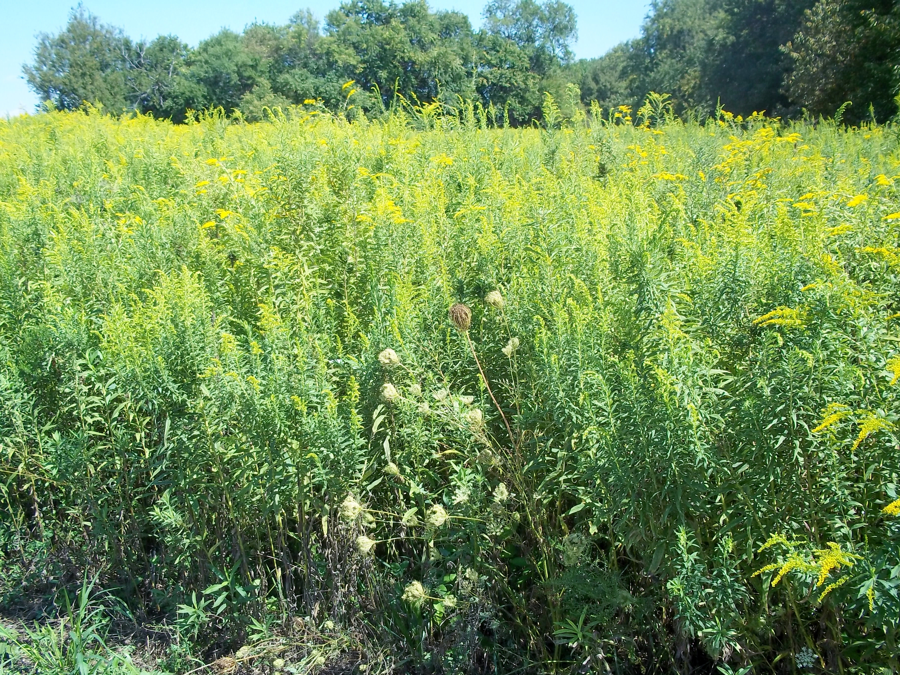 Plants of the Midewin National Tallgrass Prairie. A tallgrass prairie in Will County, northeastern Illinois.